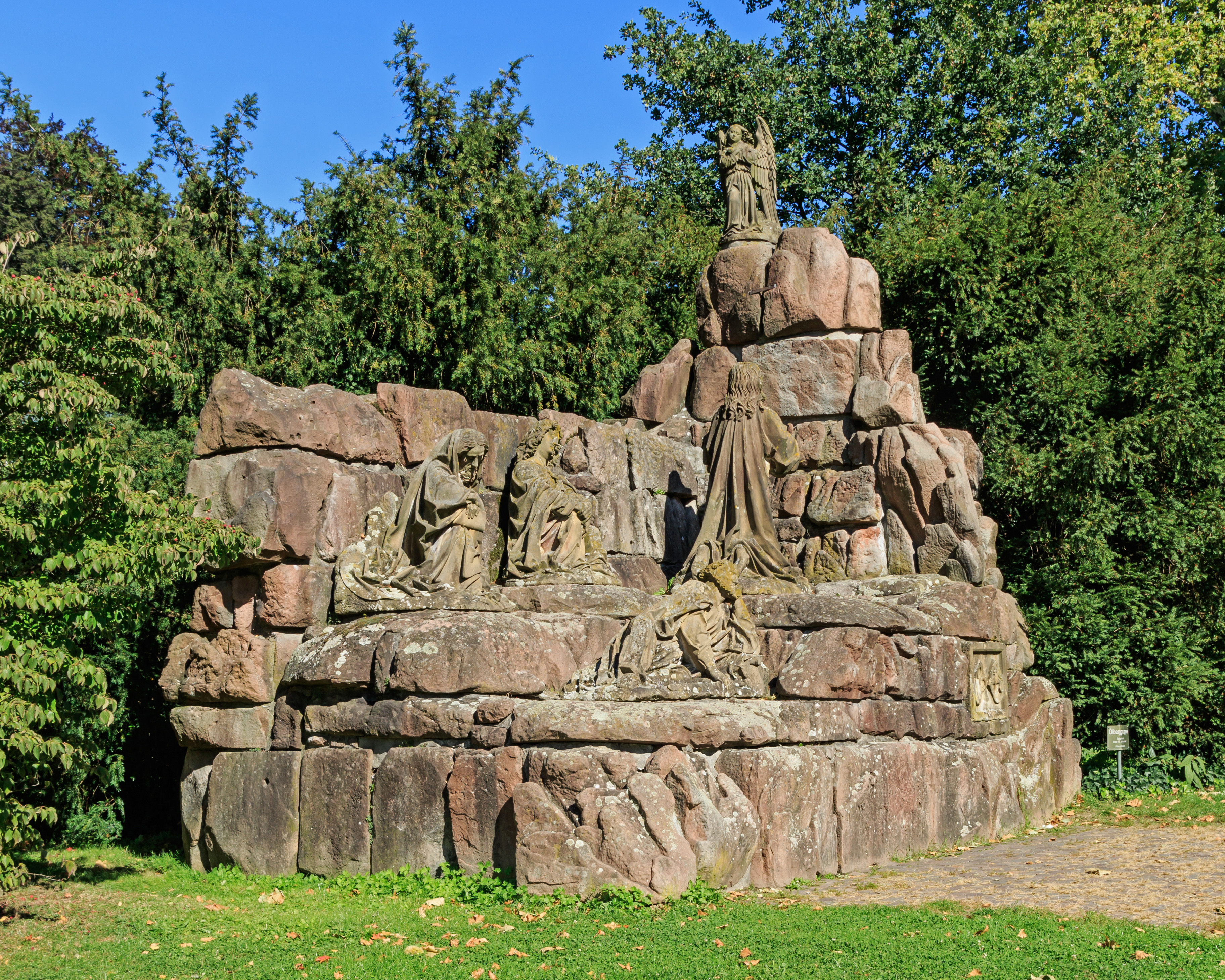 A 15th century Mount of Olives sculpture composition in Baden-Baden (BW, Germany).